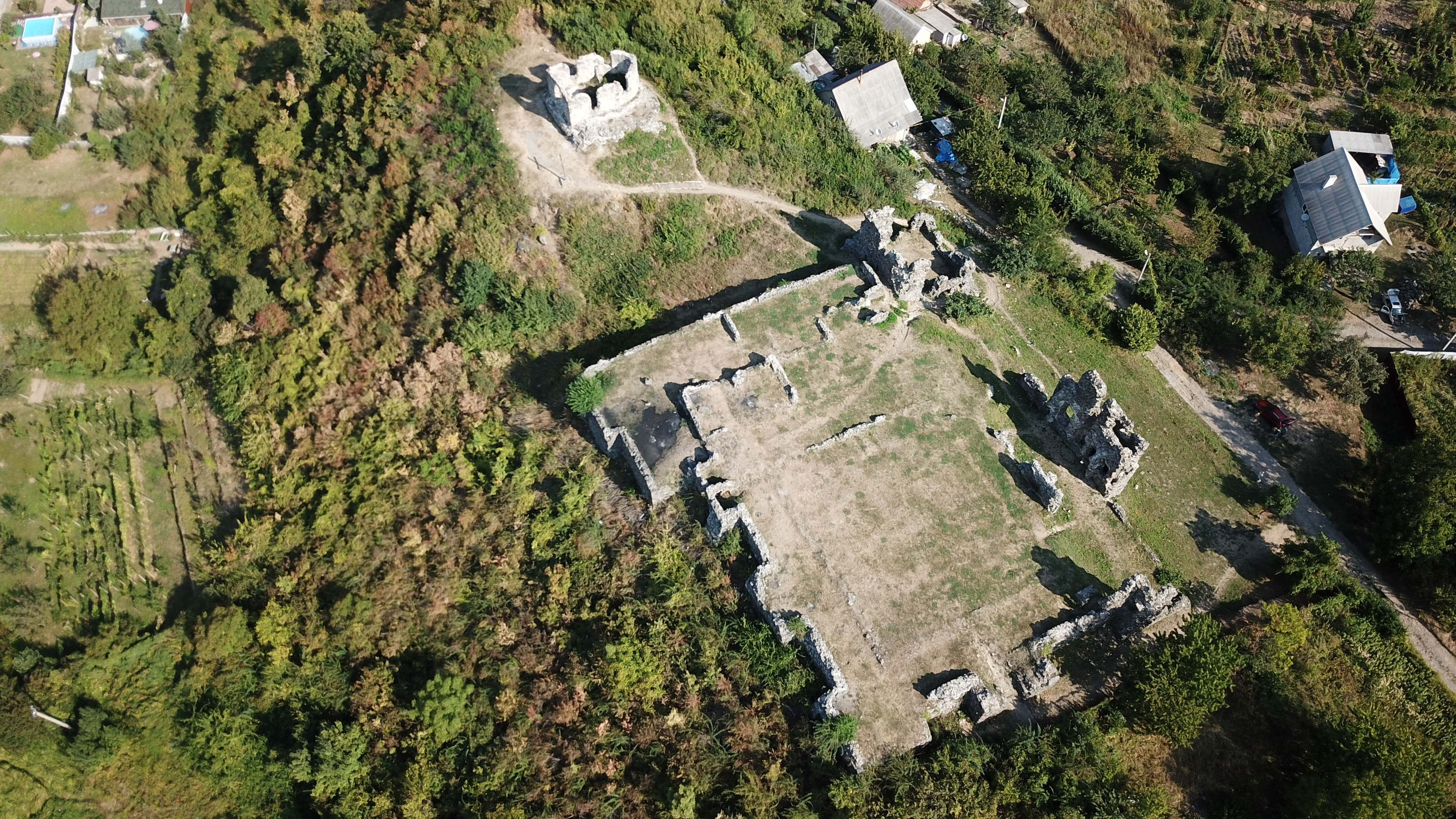 Aerial view of ruins of the Ugocsa Castle in Vynohradiv, Ukraine